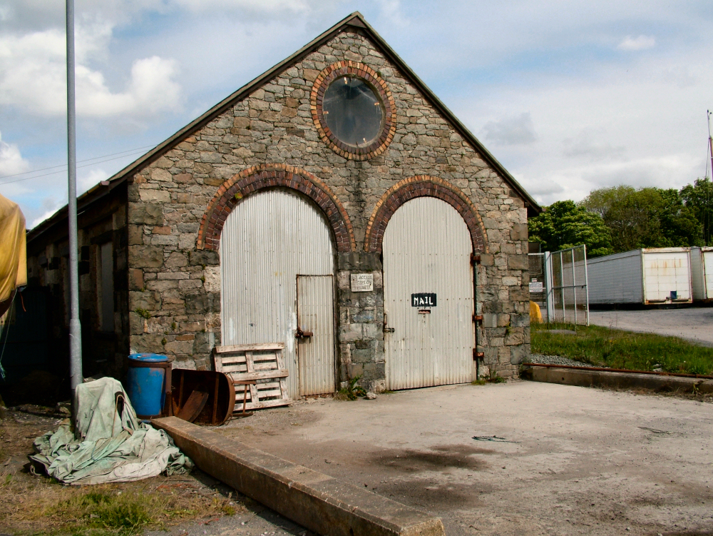 The old locomotive shed at Porth Penrhyn.